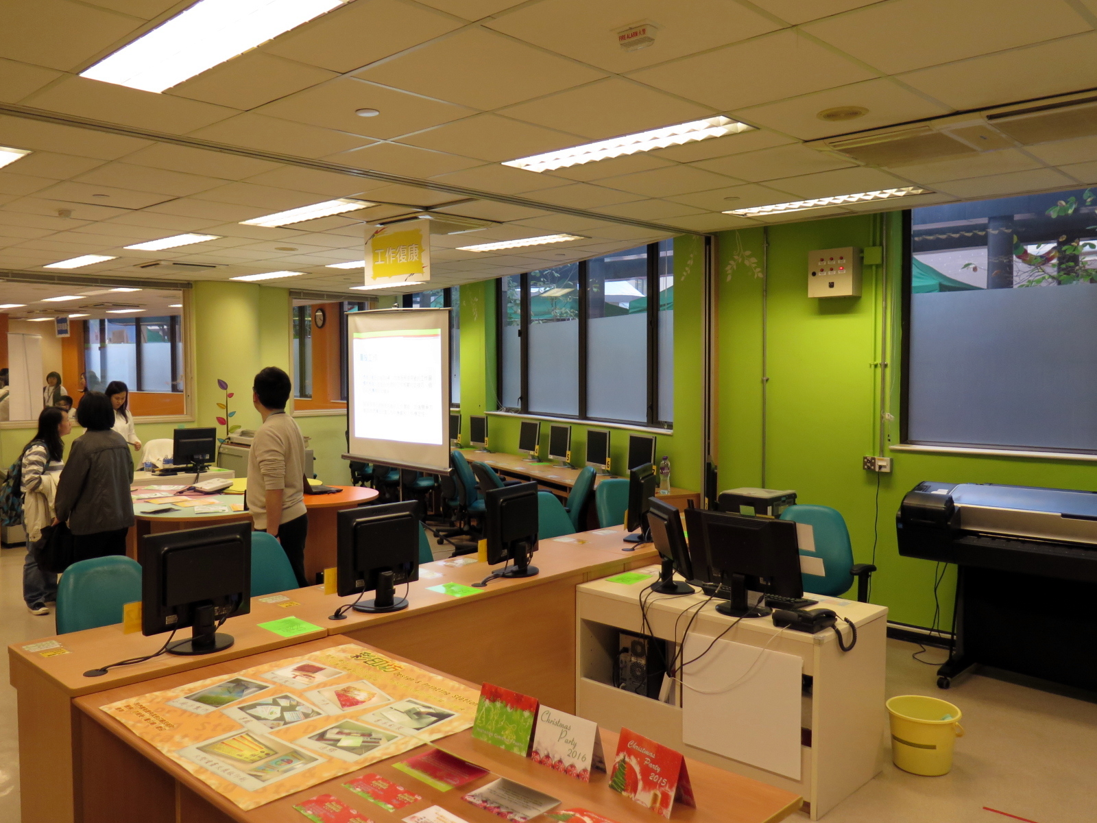 Castle Peak Hospital Computer training workshop